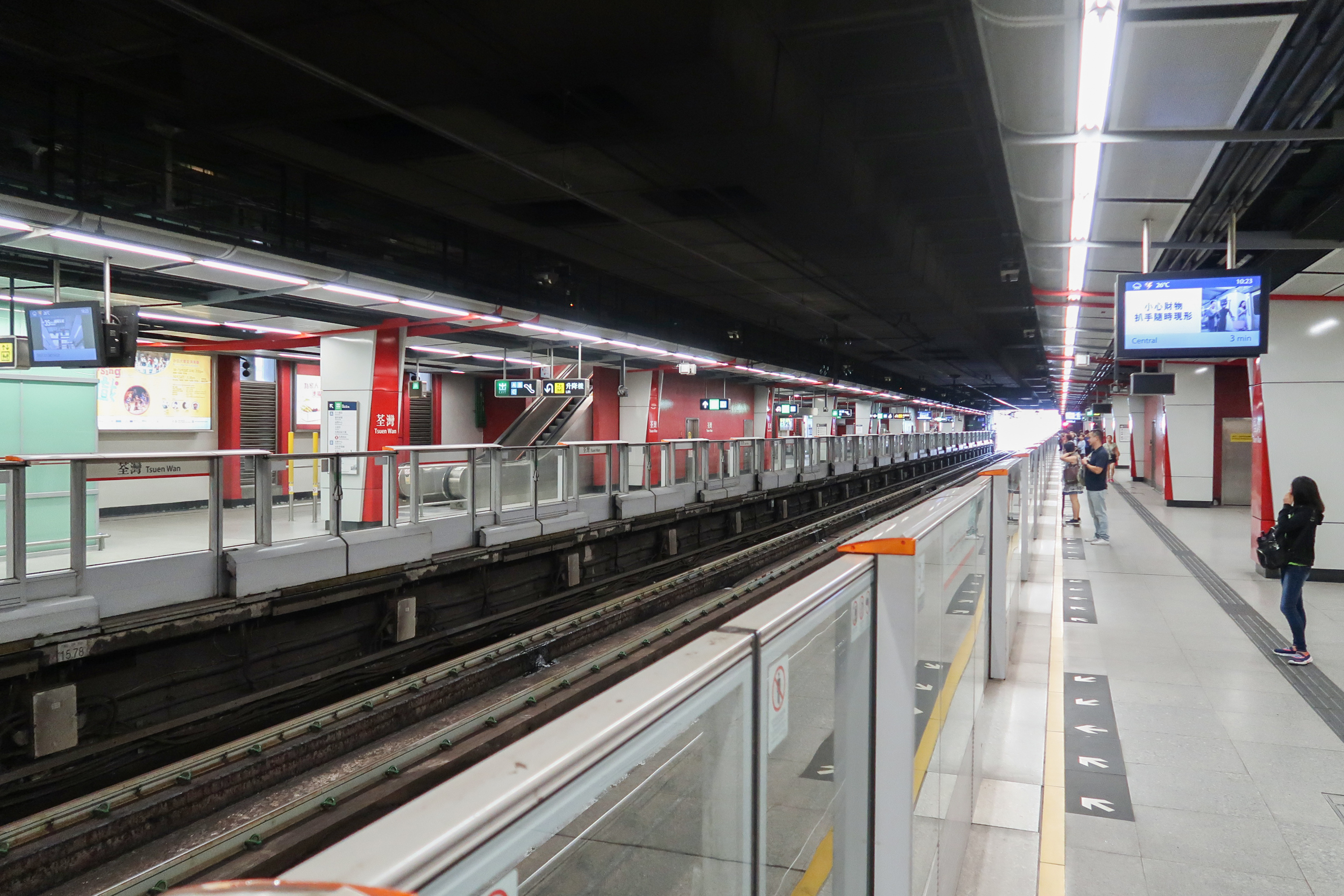 Tsuen Wan Station Platform